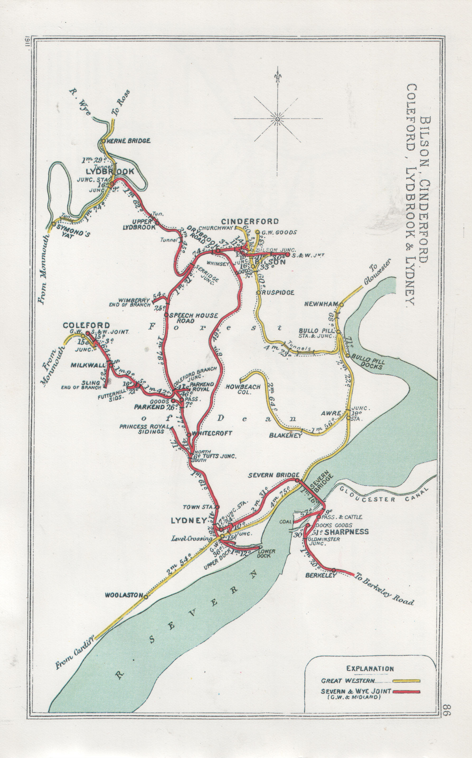 Pre Grouping railway junction around Bilson, Cinderford, Coleford, Lydbrook & Lydney